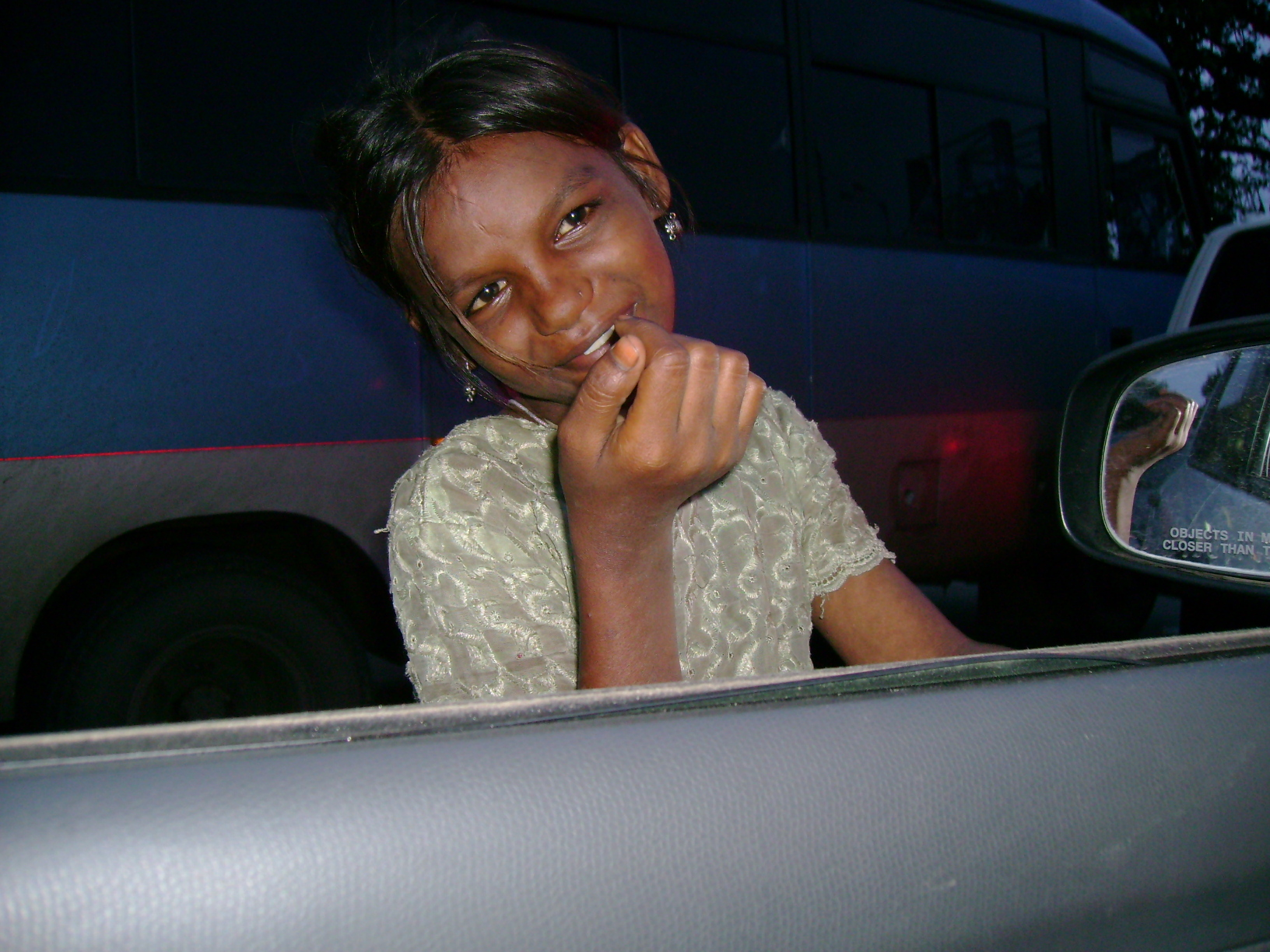 Begging professional